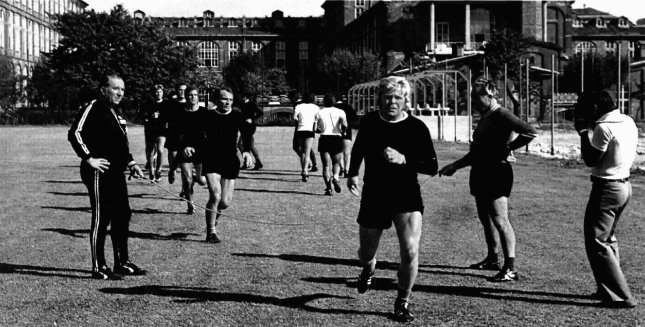 Juventus F.C. training at the Campo Combi in Turin; coach Čestmír Vycpálek (left), José Altafini (center) and Helmut Haller (right).